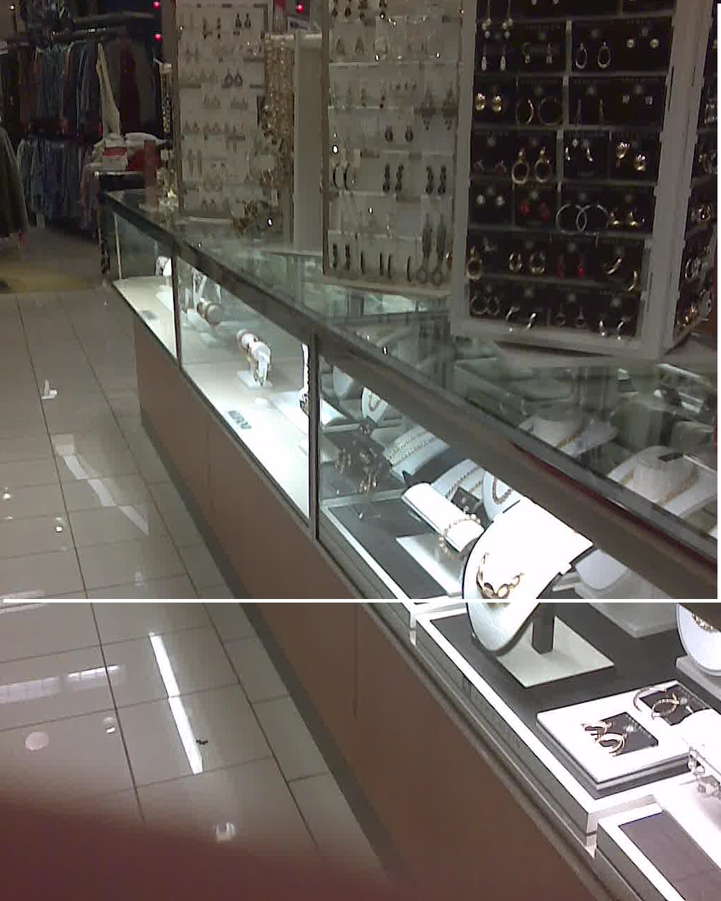 Macy's display case lighting - Columbus, Ohio